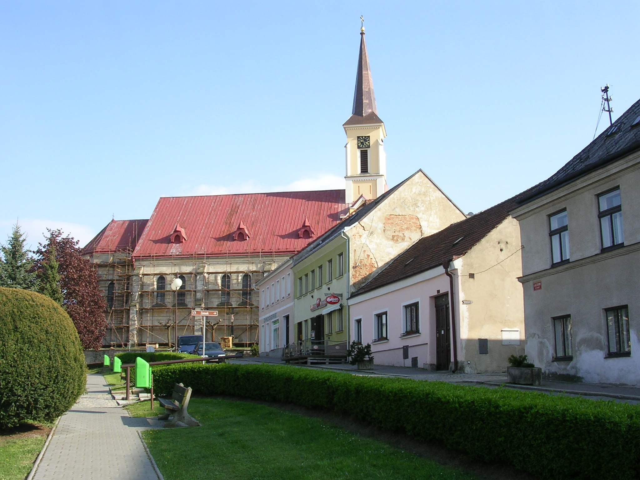 Žirovnice, Vysočina Region, the Czech Republic.